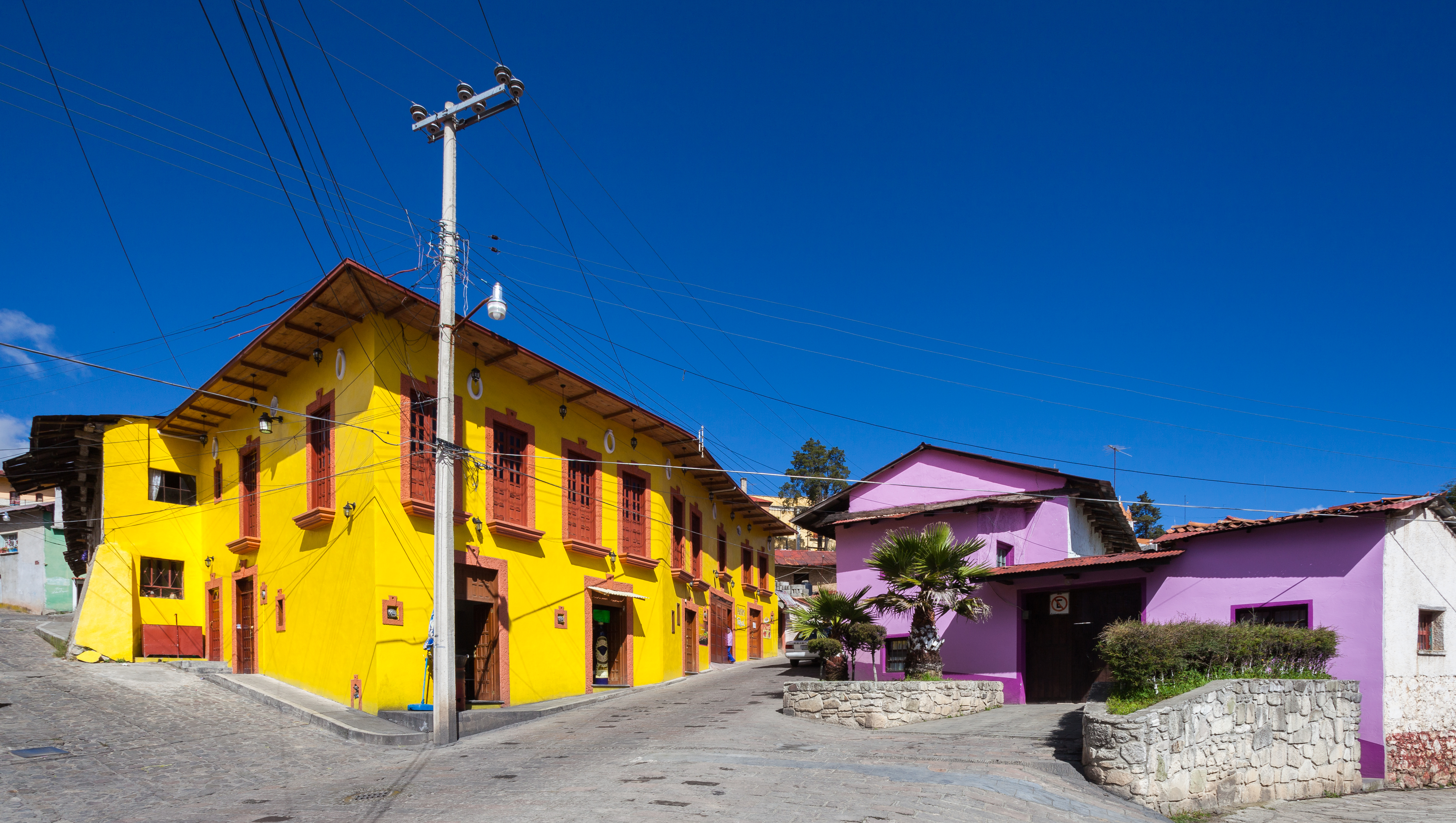 House in Real del Monte, Hidalgo, Mexico